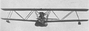 Italian Macchi M.24 flying boat